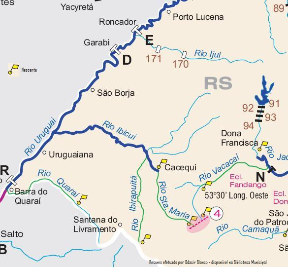 The Ibicui River Map - Brazil - Rio Grande do Sul - Manoel Viana City